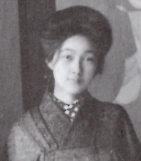 Japanese style female painter, Matsumoto kayō（1893- ?）